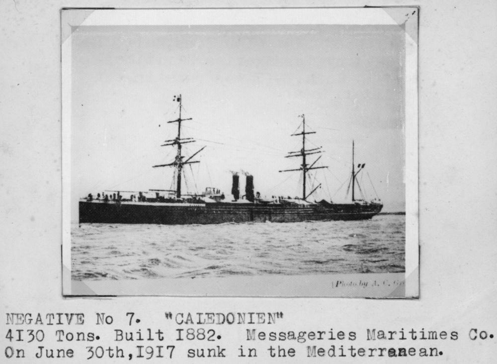 Caledonien (ship) 4130 tons. Built in 1882 and owned by the Messageries Maritime Co. This ship sunk in the Mediterranean Sea on 30 June 1917. (Description supplied with photograph).